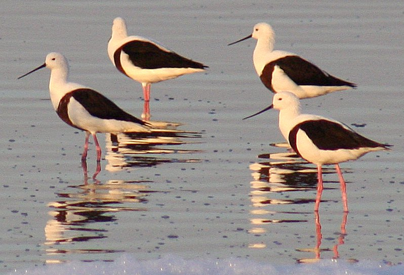 Banded stilts - Governors Lake, Rottnest Island